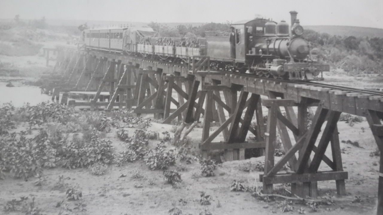 Gamtoos river bridge, ca. 1905, Avontuur Line, South Africa